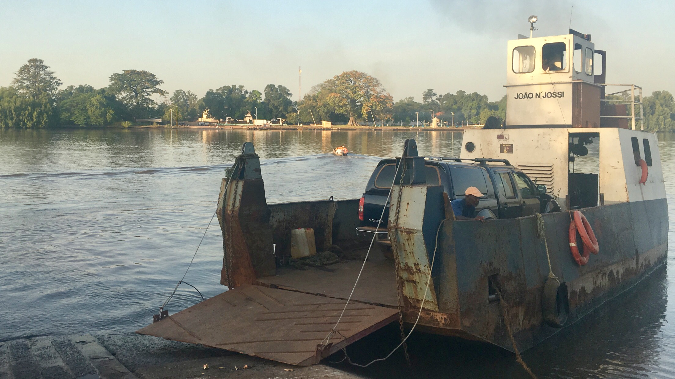 This is an image with the theme "Africa on the Move or Transport" from: Guinea-Bissau